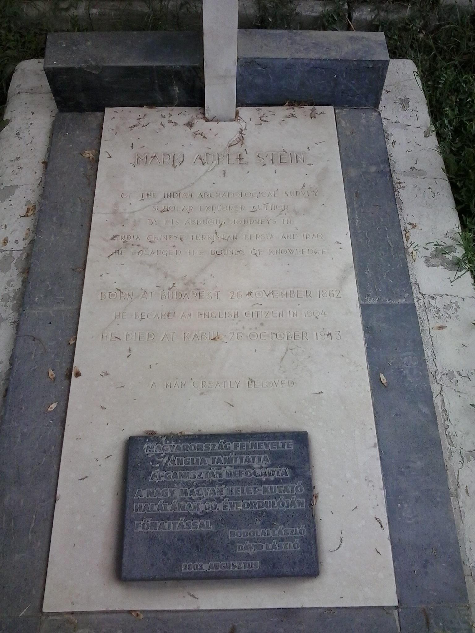 A picture of the grave of Sir Aurel Stein, in the British Cemetery, Kabul. The Hungarian plaque, attached August 2003, reads: "Raised by Hungary, educated by England, received by Afghanistan, the great Hungarian Orientalist on the 60th anniversary of his death. Saluting, L. Bodolai, L. Dávid"